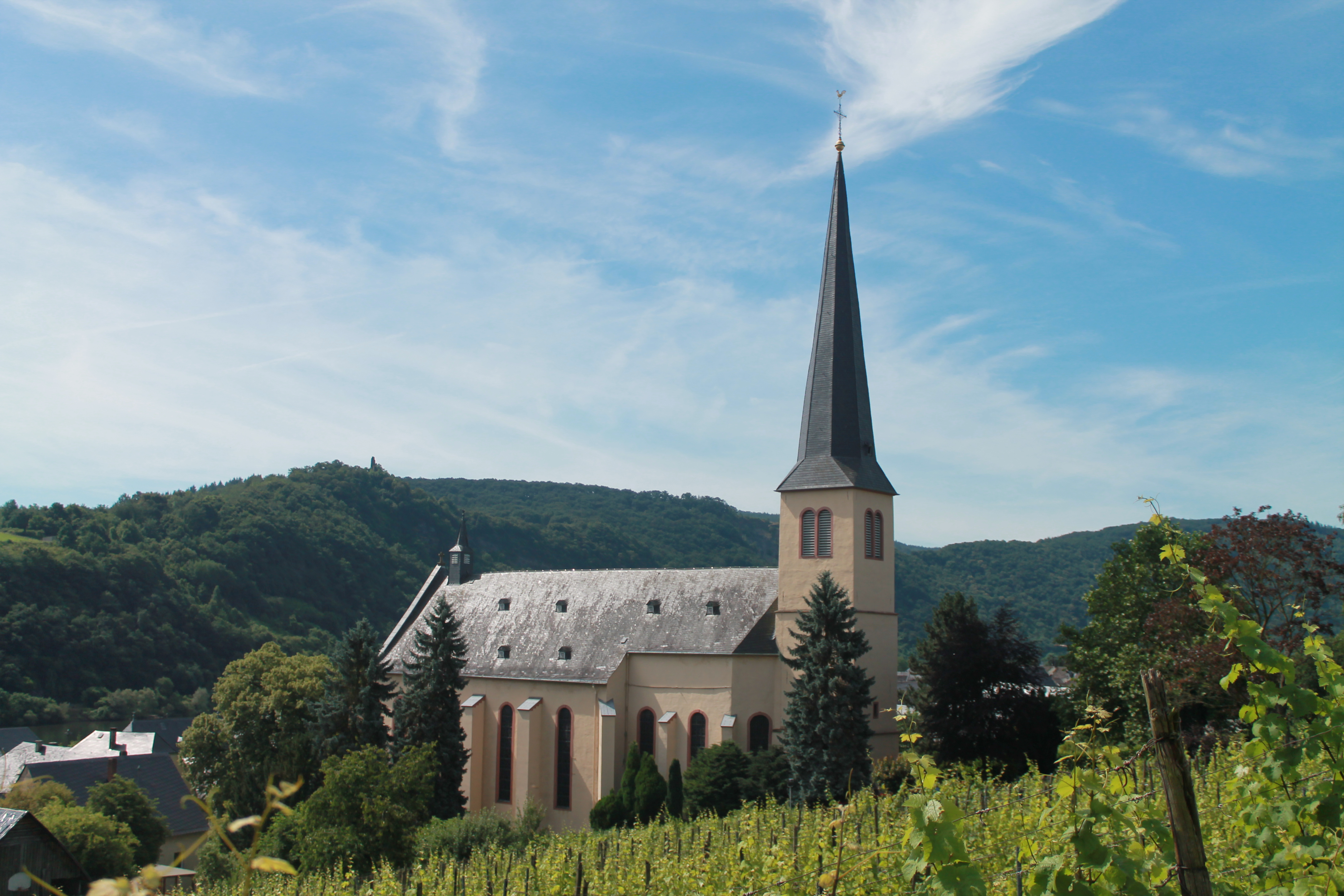 Church St. Remigius in Kröv.